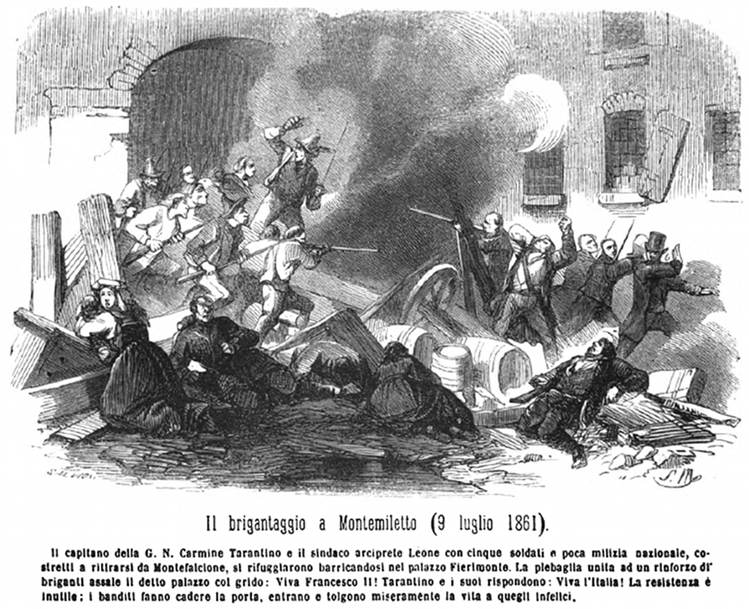 Attack of the pro-Bourbon Legitimists on Fierimonte mansion, private residence of a liberal family and headquarters of local pro-Italian unification forces, during the Montemiletto Uprising (July 1861)